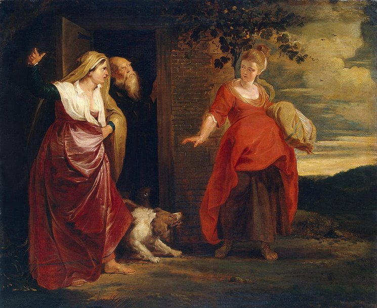 Hagar leaves the home of Abraham